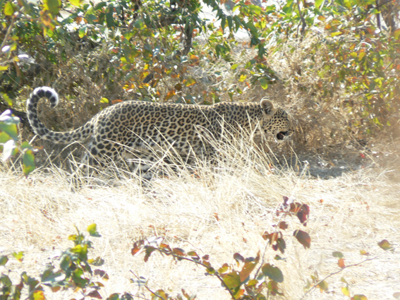 African Leopard in Namibia.